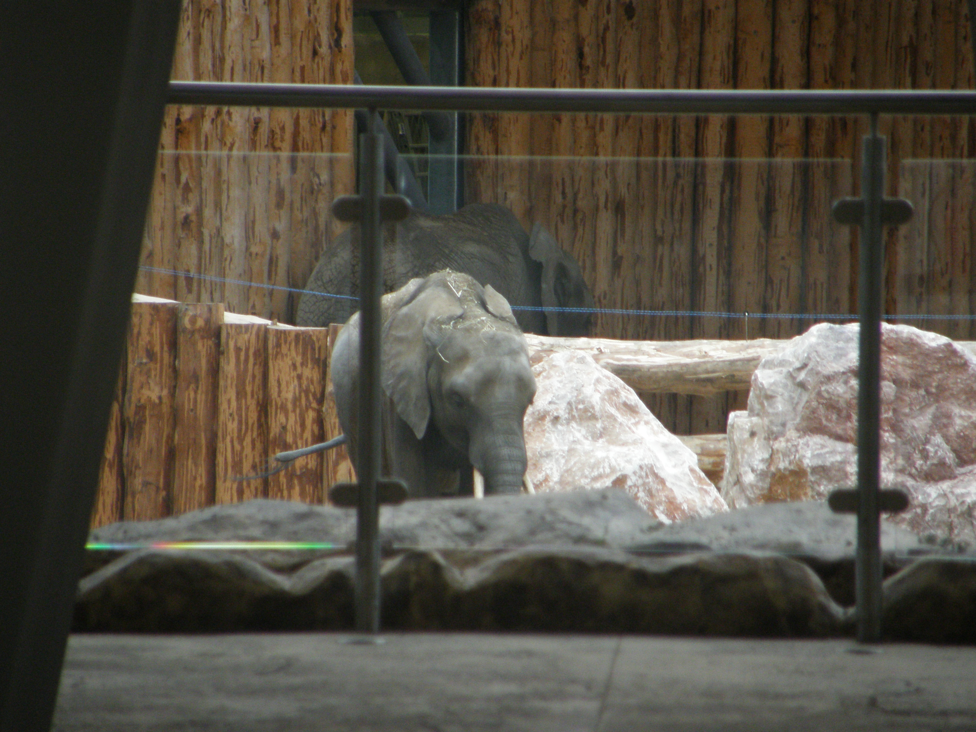 First elephants in New Zoo in Poznań